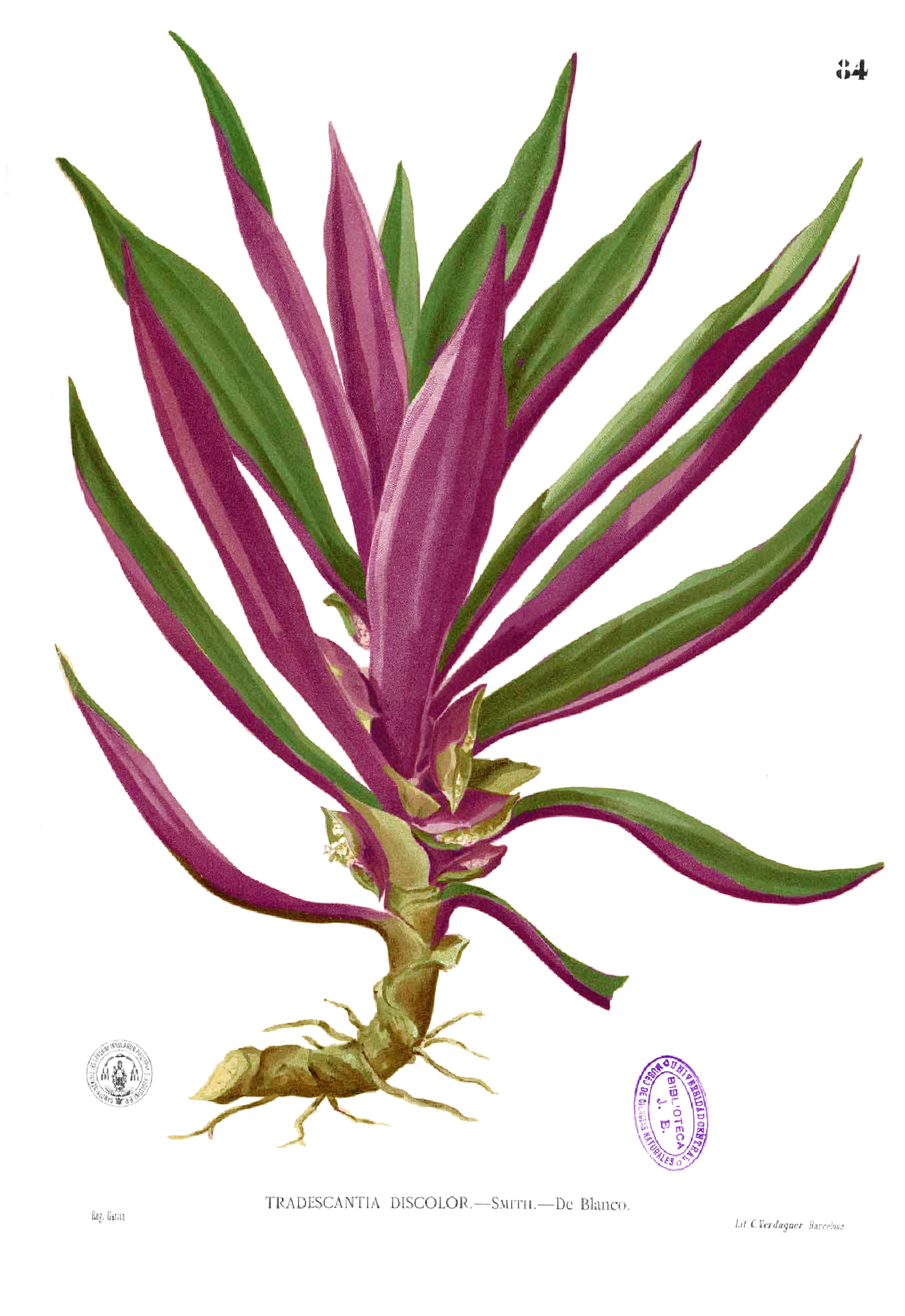 Plate from book